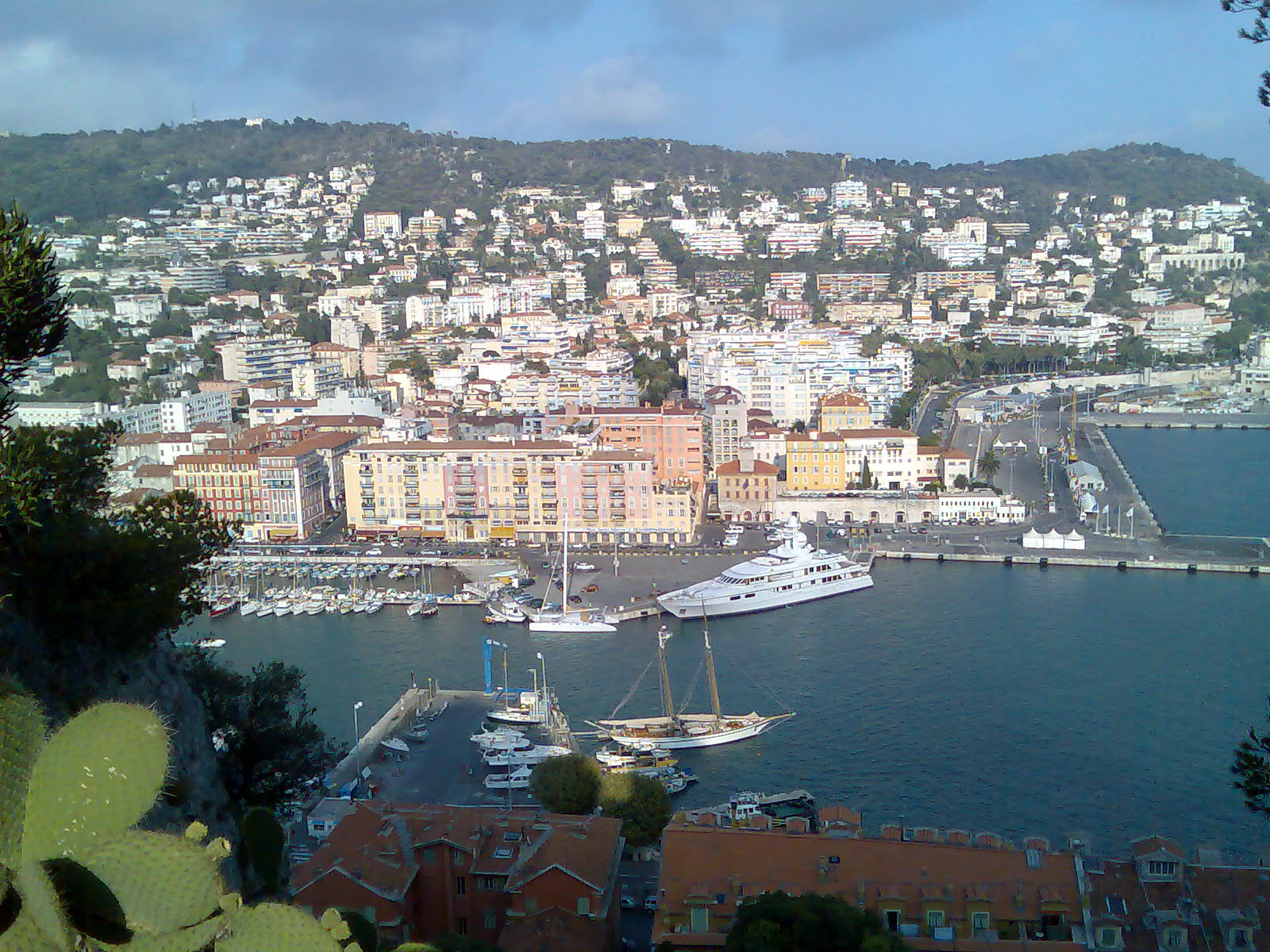 The view of the port in Nice from the Castle Hill